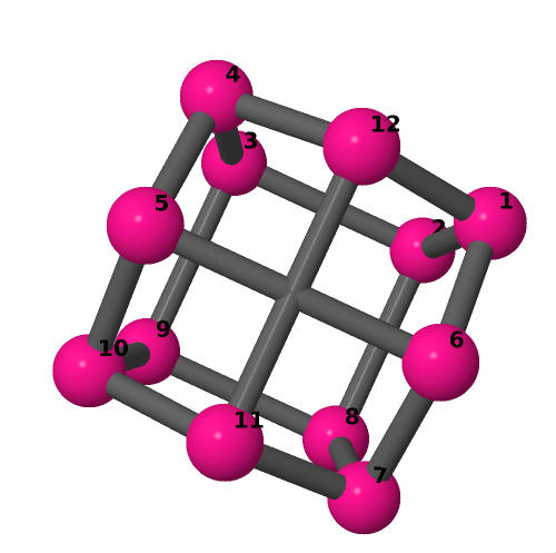 One of 85 simple cubic graphs with 12 vertices.